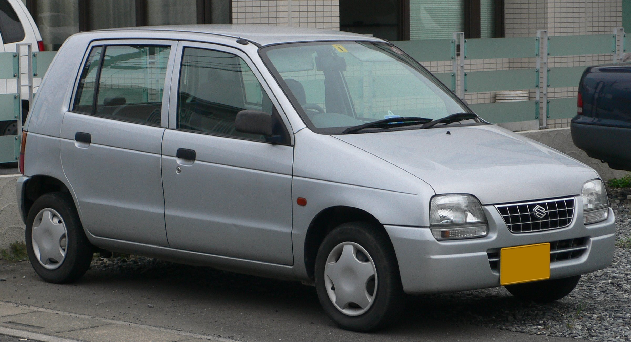 4th generation Suzuki_Alto (1997 - 1998)